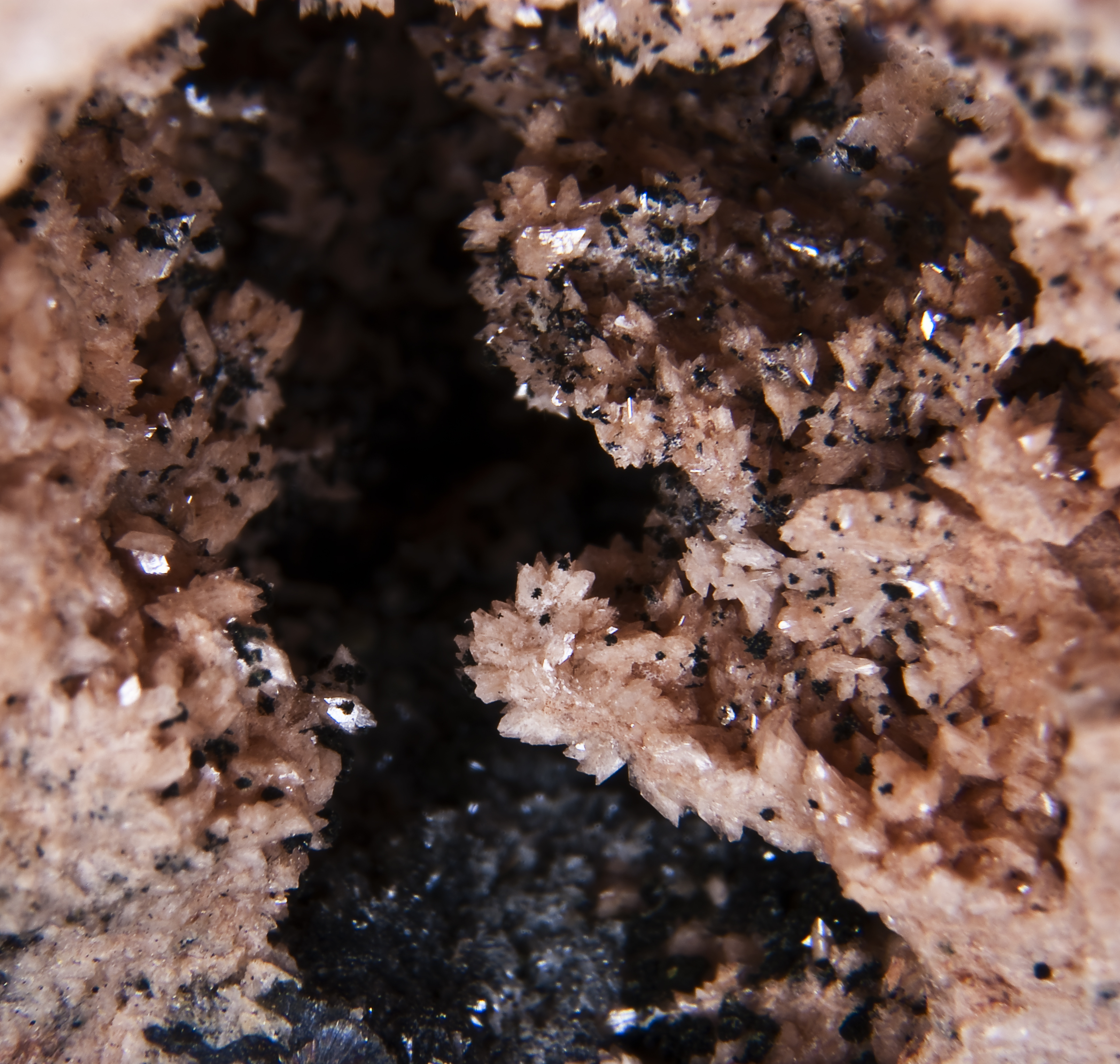 Hureaulite (pink) and barbosalite (black) Locality : Sapucaia Mine, Sapucaia do Norte, Galiléia, Doce valley, Minas Gerais, Southeast Region, Brazil Size view : 1.1x1cm